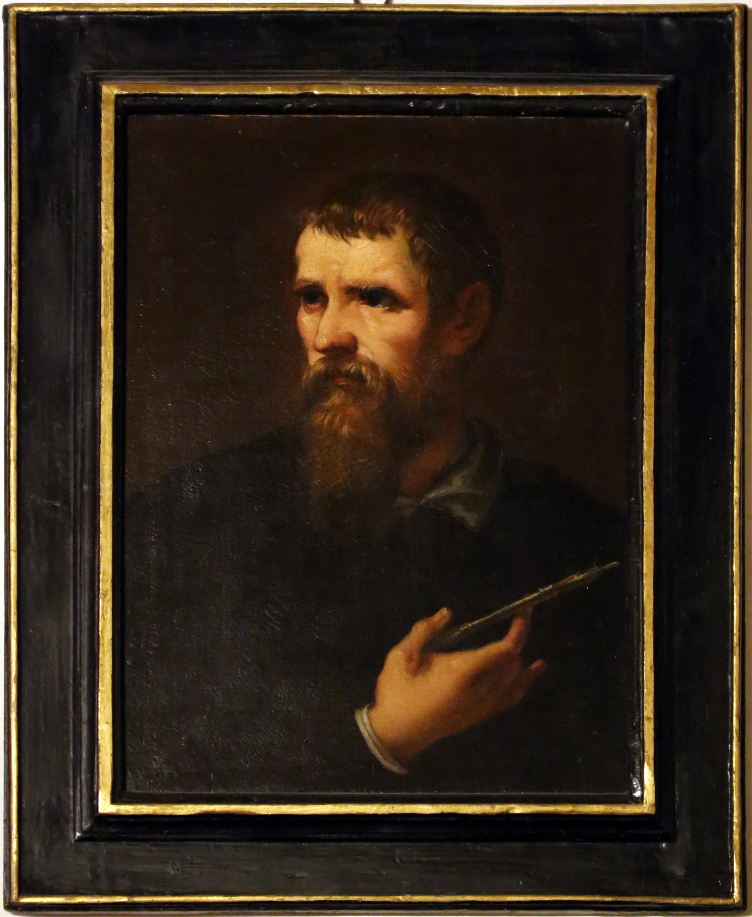 Paintings in the Accademia delle Arti del Disegno (Florence)